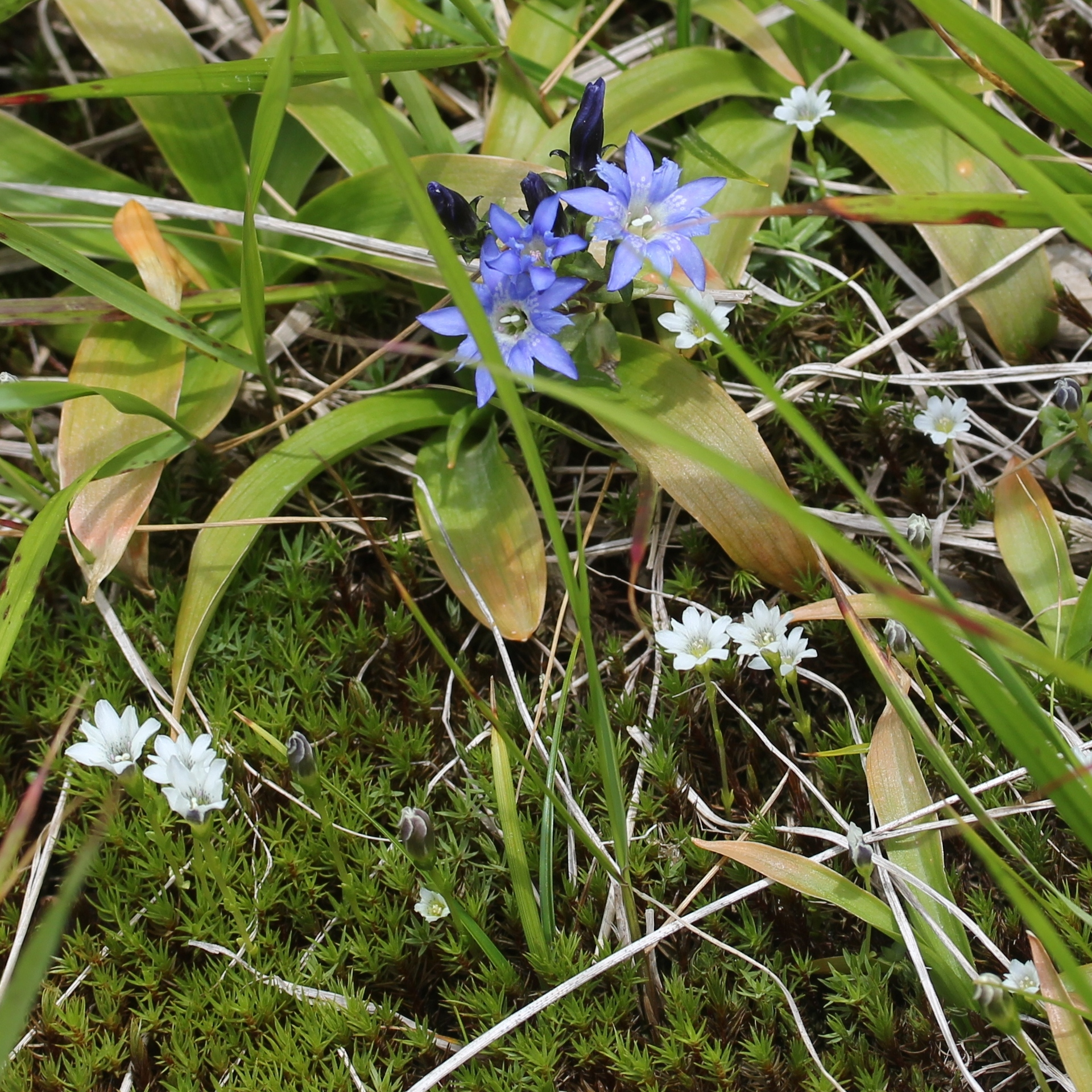 Gentiana nipponica and Gentiana thunbergii var. minor f. ochroleuca in Mount Kitanomata, Hida Mountains, Japan.